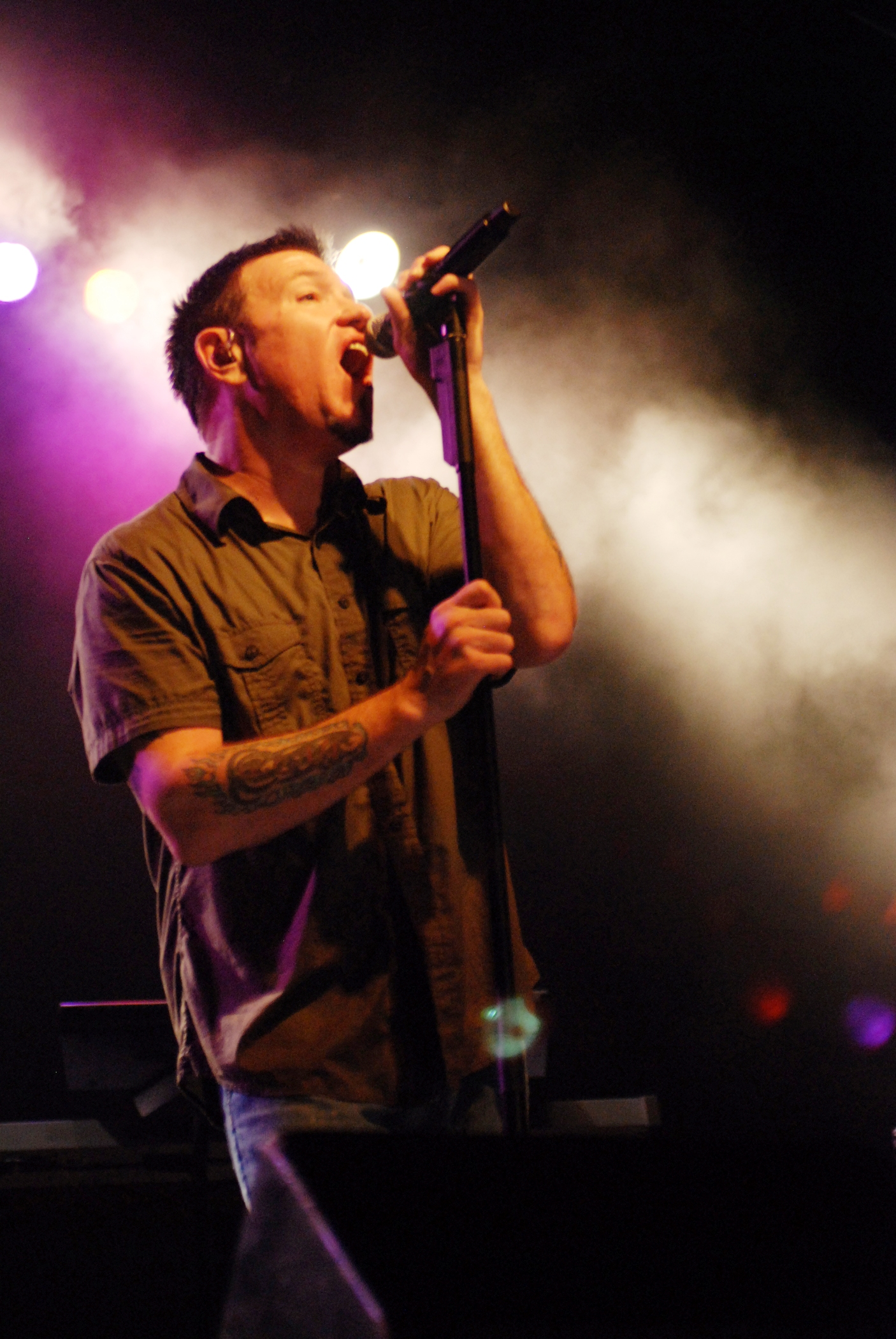 Steve Harwell, the lead vocalist for American pop rock band Smashmouth, during a concert.